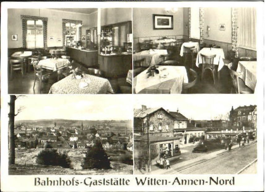 railway station Witten-Annen Nord